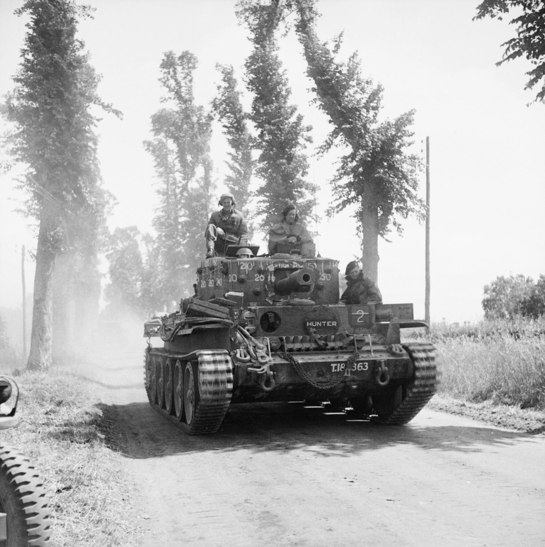 Centaur IV tank of the Royal Marines Armoured Support Group near Tilly-sur-Seulles, 13 June 1944.